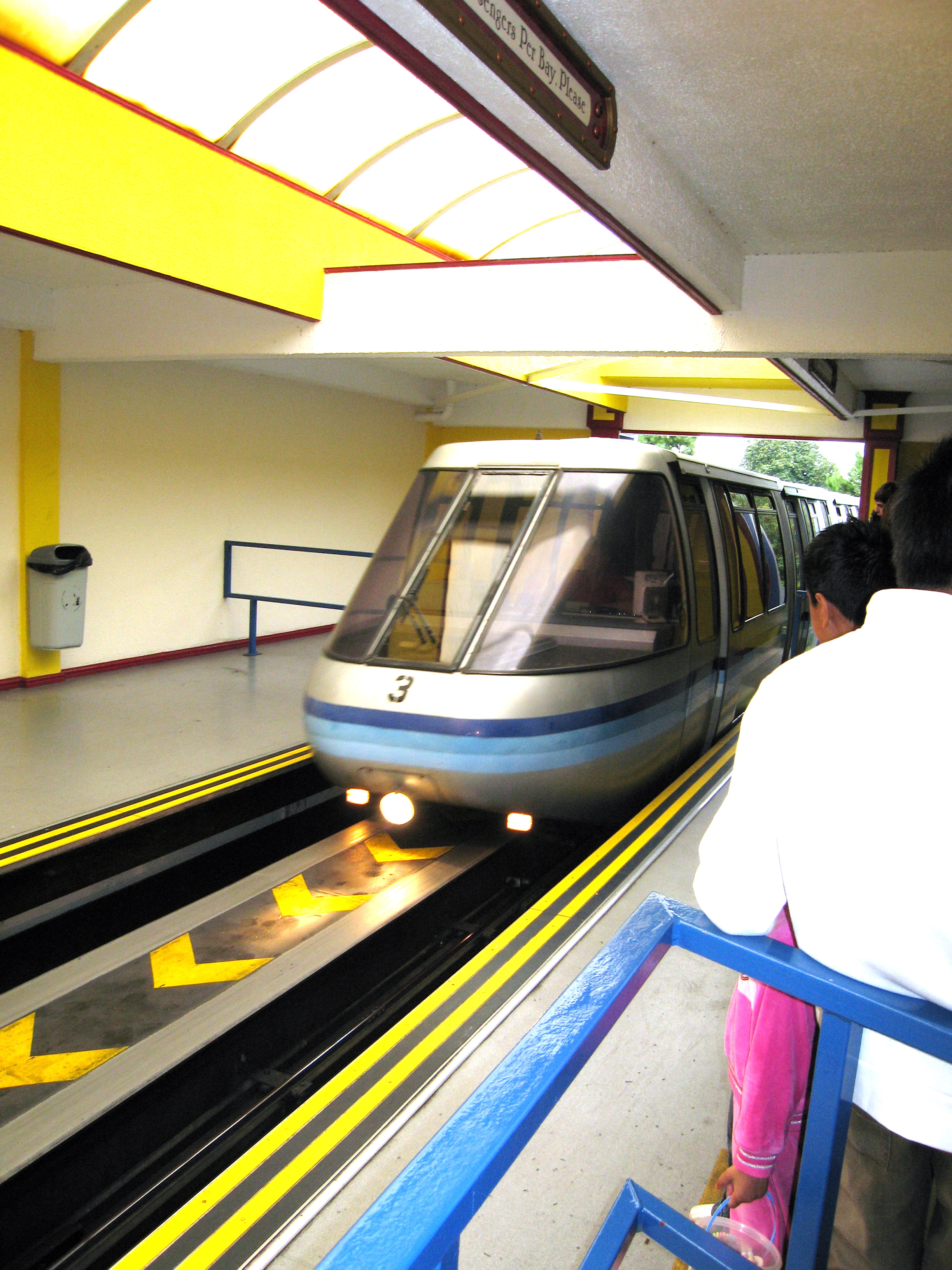 Von Roll monorail at Alton Towers, UK. The monorail was shipped over from Canada after construction for Expo 86.